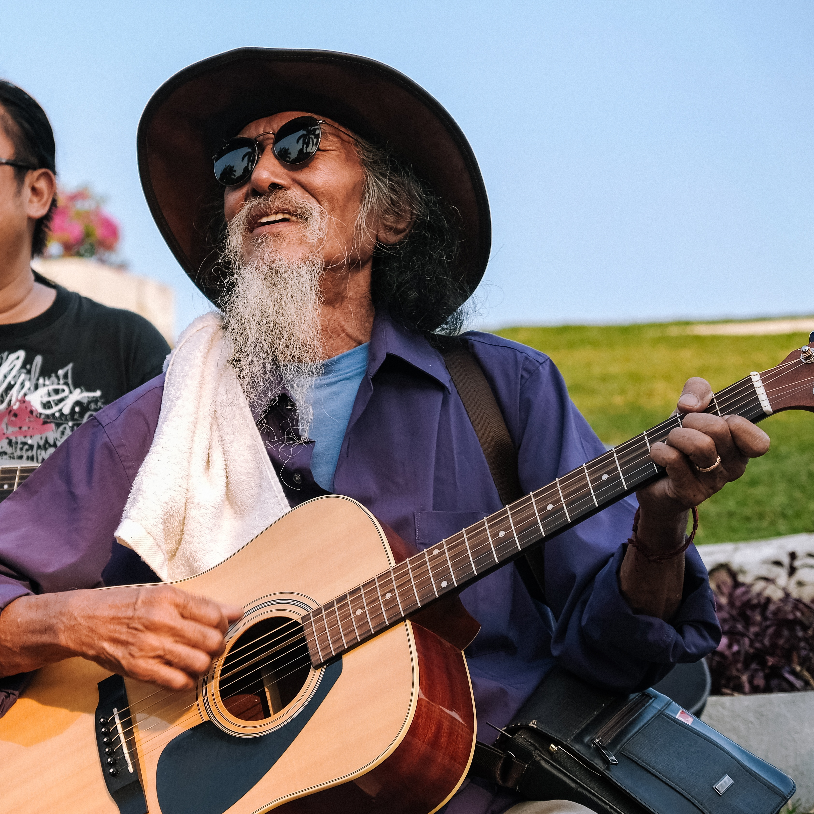 Ye Lwin (Mizzima Hlaing) မြန်မာဘာသာ: ရဲလွင်(မဇ္စျိမလှိုင်း)